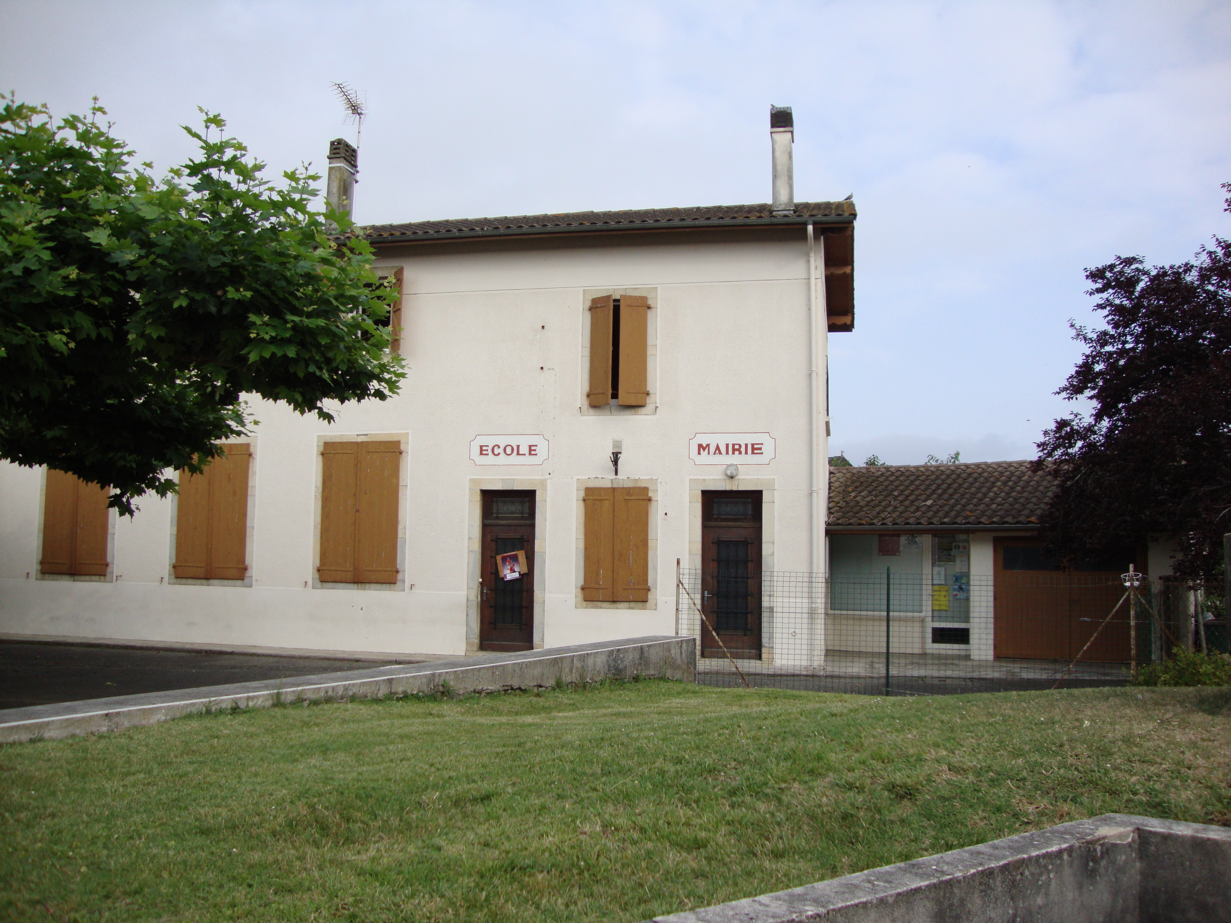 Geüs-d'Oloron (Pyr-Atl, Fr) town hall - school